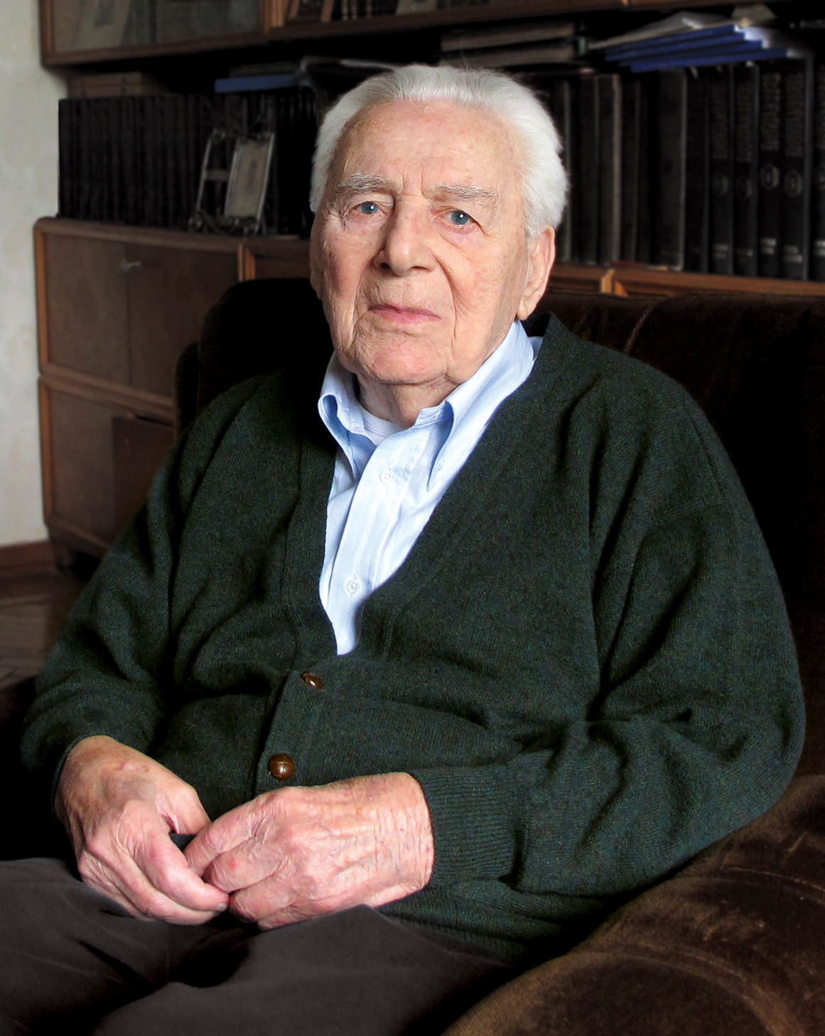 Georgian geophysicist Benedicte Balavadze